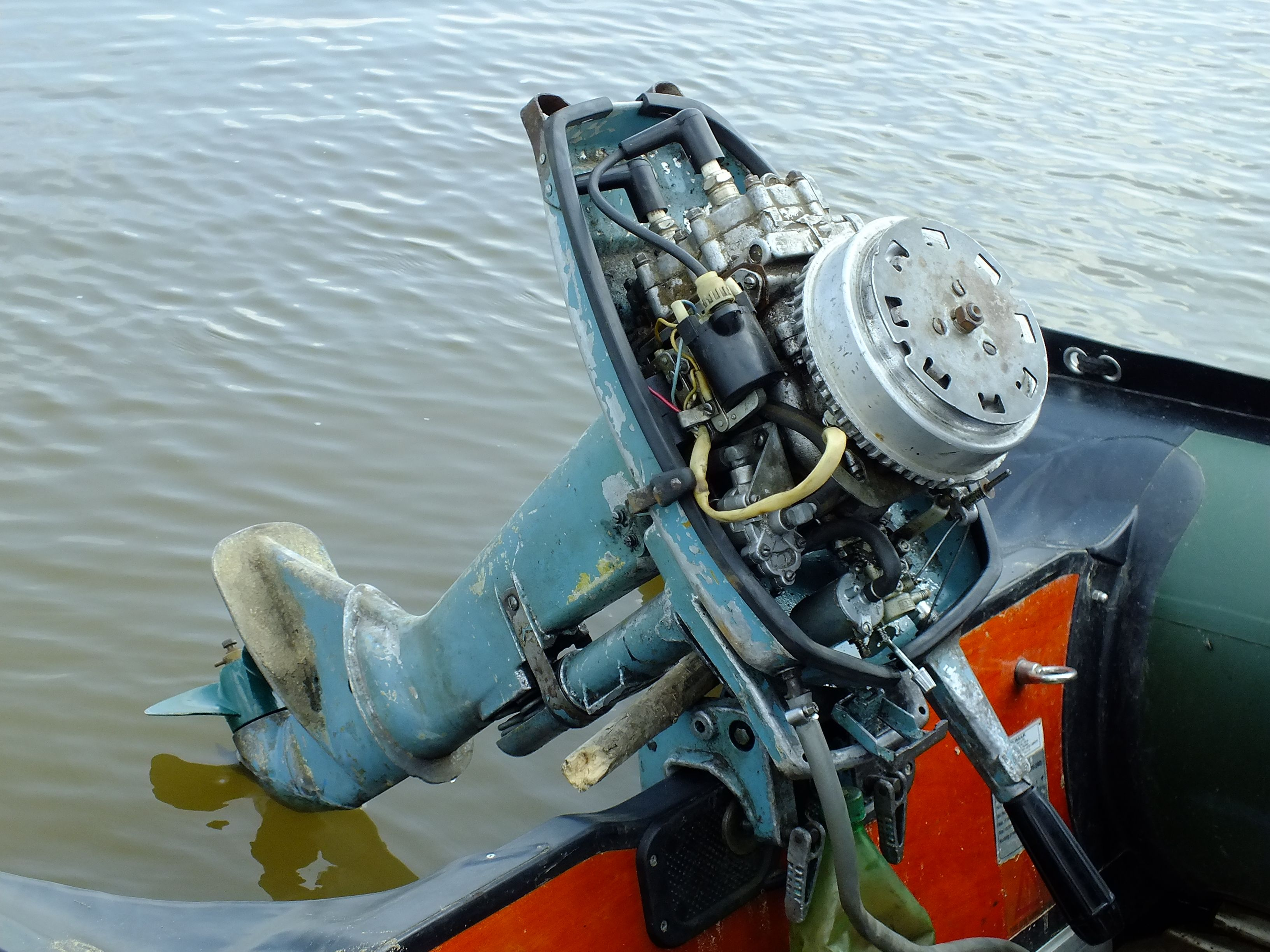 Outboard motors